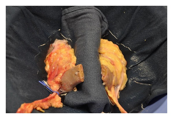 Divided kidneys. The cut ends were oversewn with pledgeted no. 1 Vicryl sutures in preparation for transplantation of the two kidneys into recipient patients.